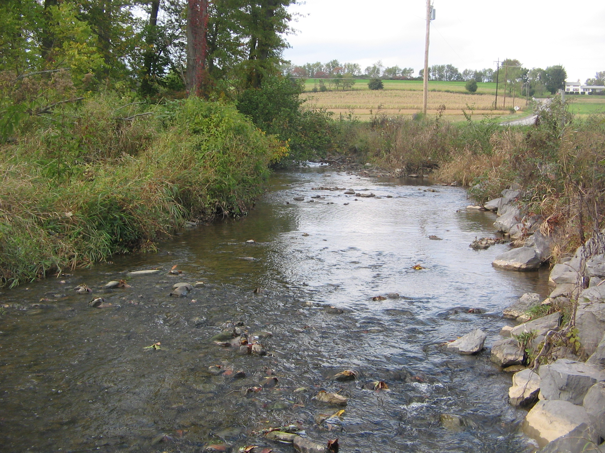 Buffalo Creek from the Hayes Bridge, located west of Mifflinburg in West Buffalo Township, Union County, Pennsylvania, United States.